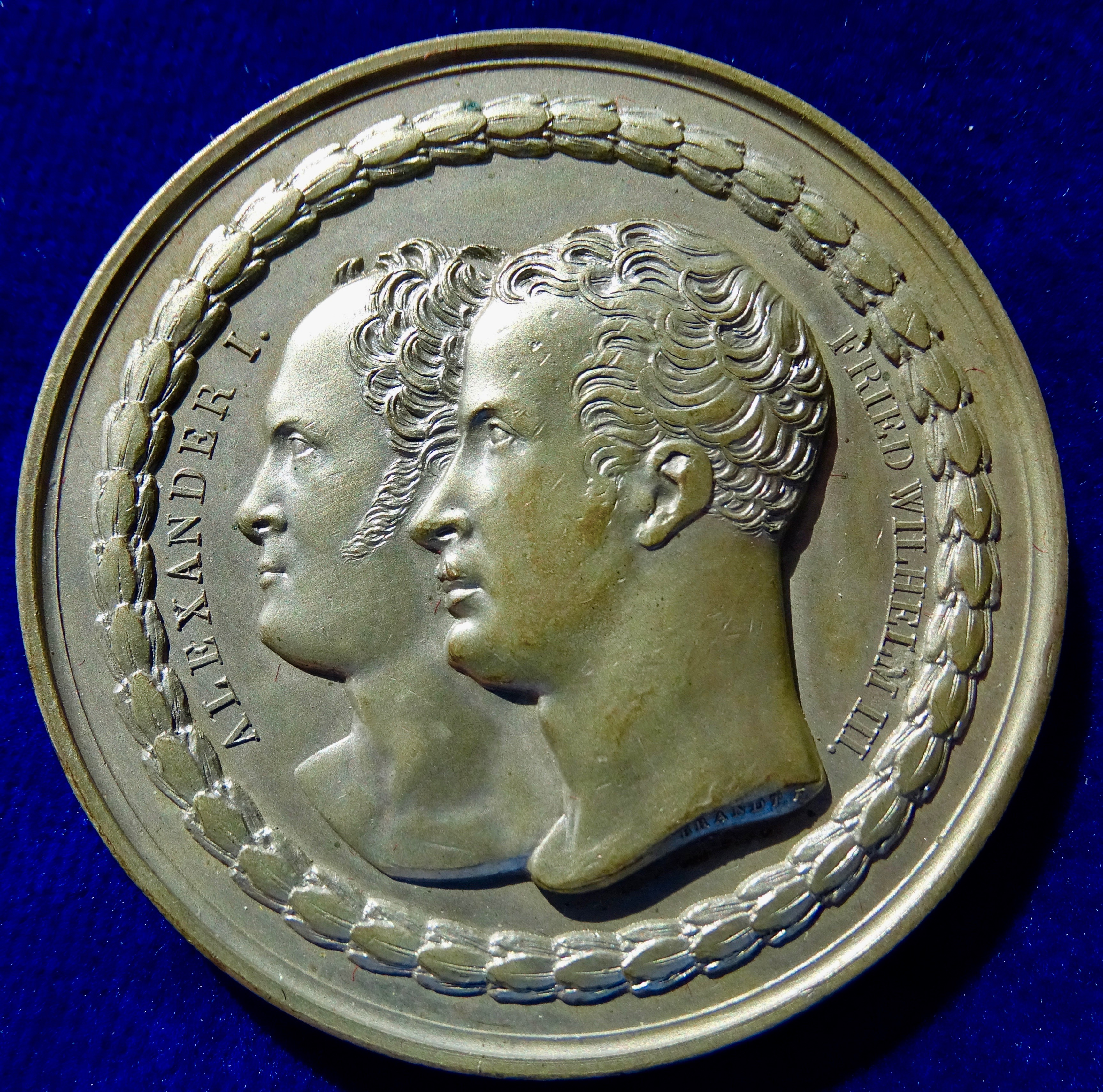 Berlin, Medal 1818, Alexander I of Russia, and Friedrich Wilhelm III of Prussia. Silvered bronze medallion d. = 50 mm of the the laying of the foundation stone for the Prussian National Monument of the Liberation Wars against Napoleon. Friedrich Wilhelm III of Prussia 1797-1840, and Alexander I of Russia 1801-1825 2 conjoined heads l., around: "ALEXANDER I. FRIED WILHELM III."/ 4 lines around the monument on the Berlin-Kreuzberg hill in the Victoria Park: "DANKBAR GEGEN GOTT EINGEDENK SEINER TREUEN VERBUNDETEN UND EHREND DIE TAPFERKEIT SEINES VOLKES LEGTE IN GEMEINSCHAFT MIT ALEXANDER I KAISER VON RUSSLAND FRIEDRICH WILHELM III DEN 19 SEPTEMBER 1818 DEN GRUNDSTEIN DES DENKMALS FÜR DIE RUHMVOLLEN EREIGNISSE IN DEN JAHREN 1813 1814 1815". Slg. Henckel 2235, Slg. Pniower 500 (Ag). Condition: EXTREMELY FINE.